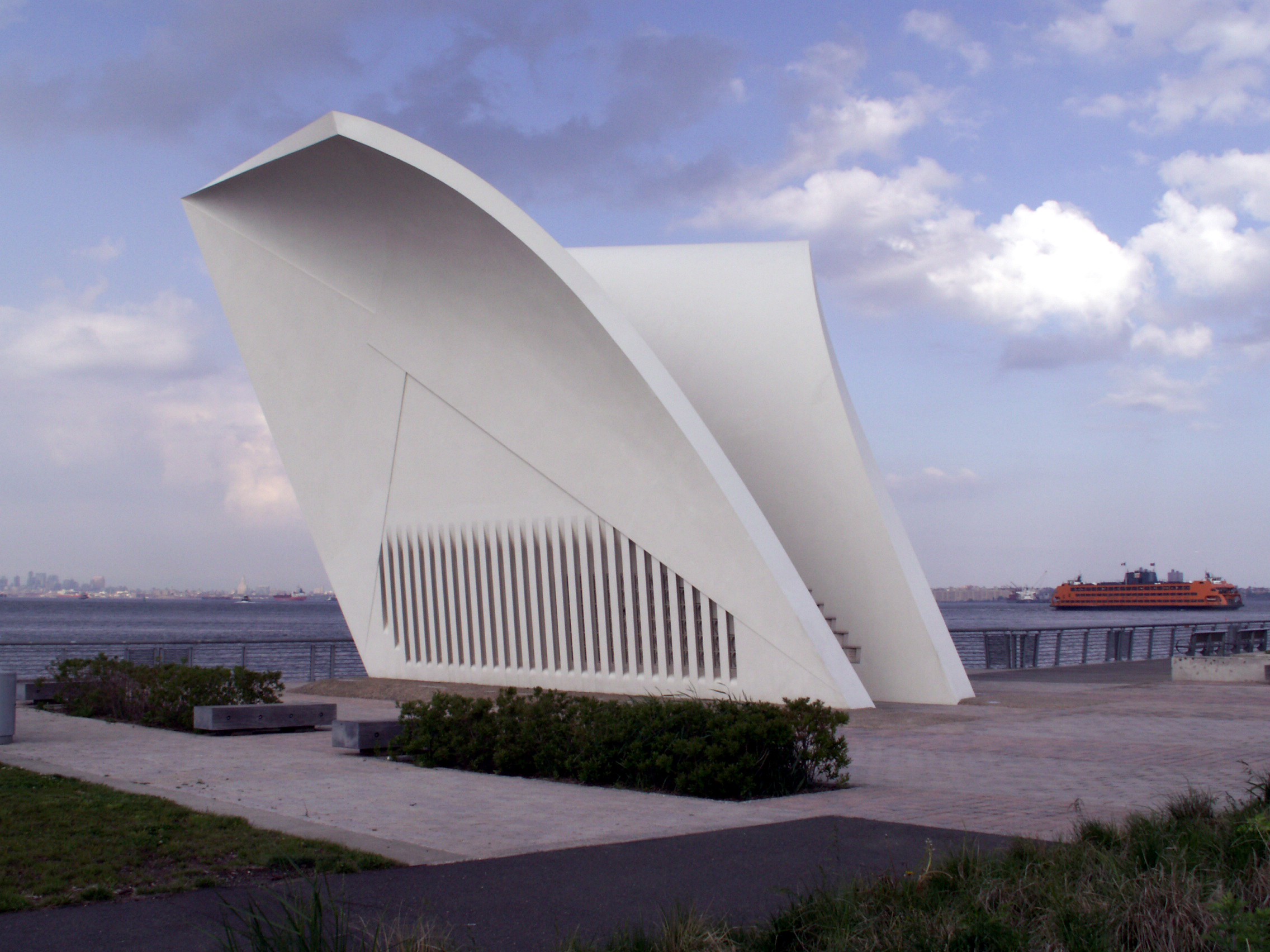 "Postcards 9/11 Memorial", a memorial to the victims of the September 11 attacks on St. George Esplanade, Staten Island.